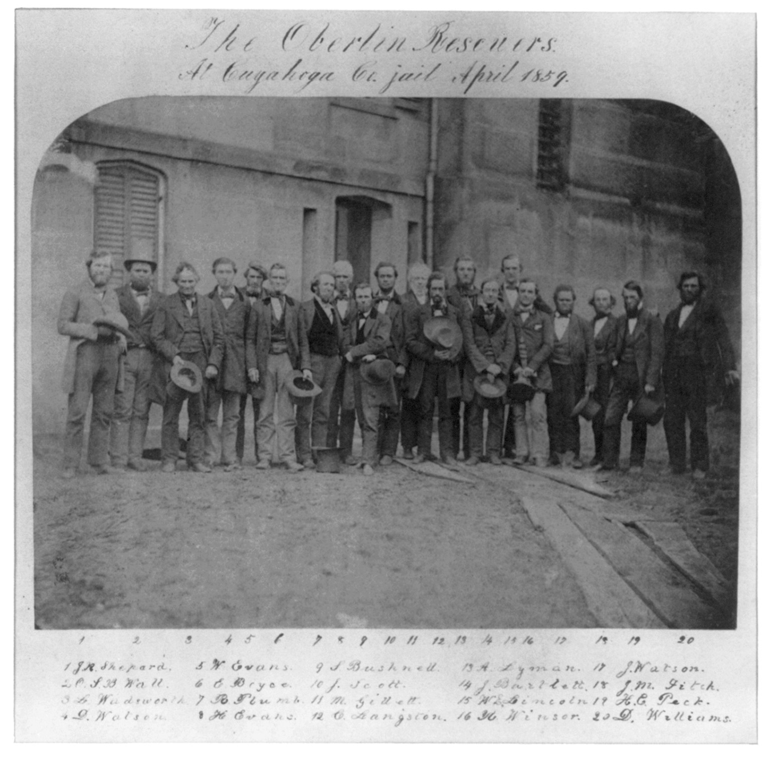 Title: The Oberlin rescuers at Cuyahoga Co. jail Abstract/medium: 1 photographic print : albumen.